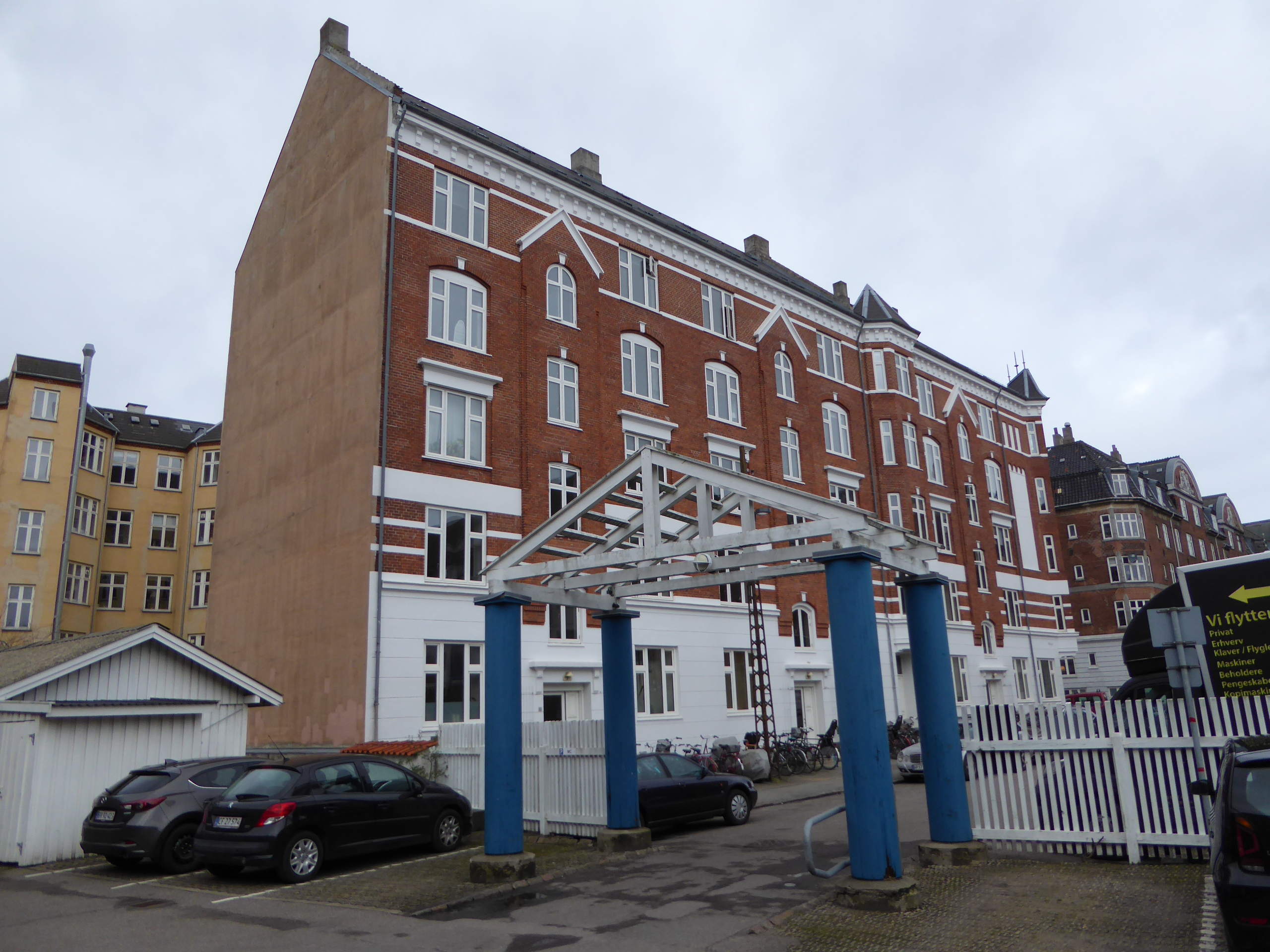 Gate of car park at Vulkangade in Nørrebro in Copenhagen.